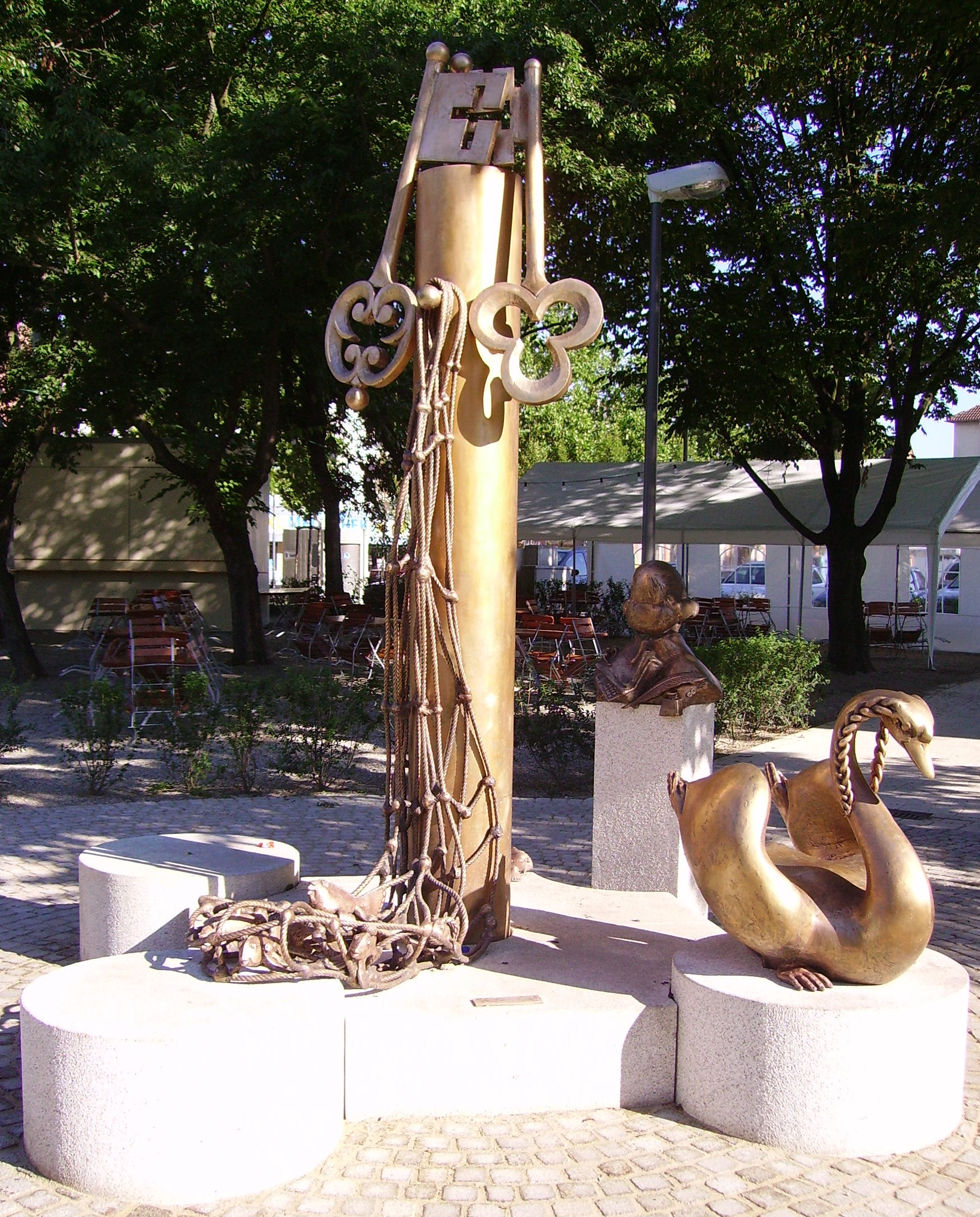 monument in Ludwigshafen, Germany